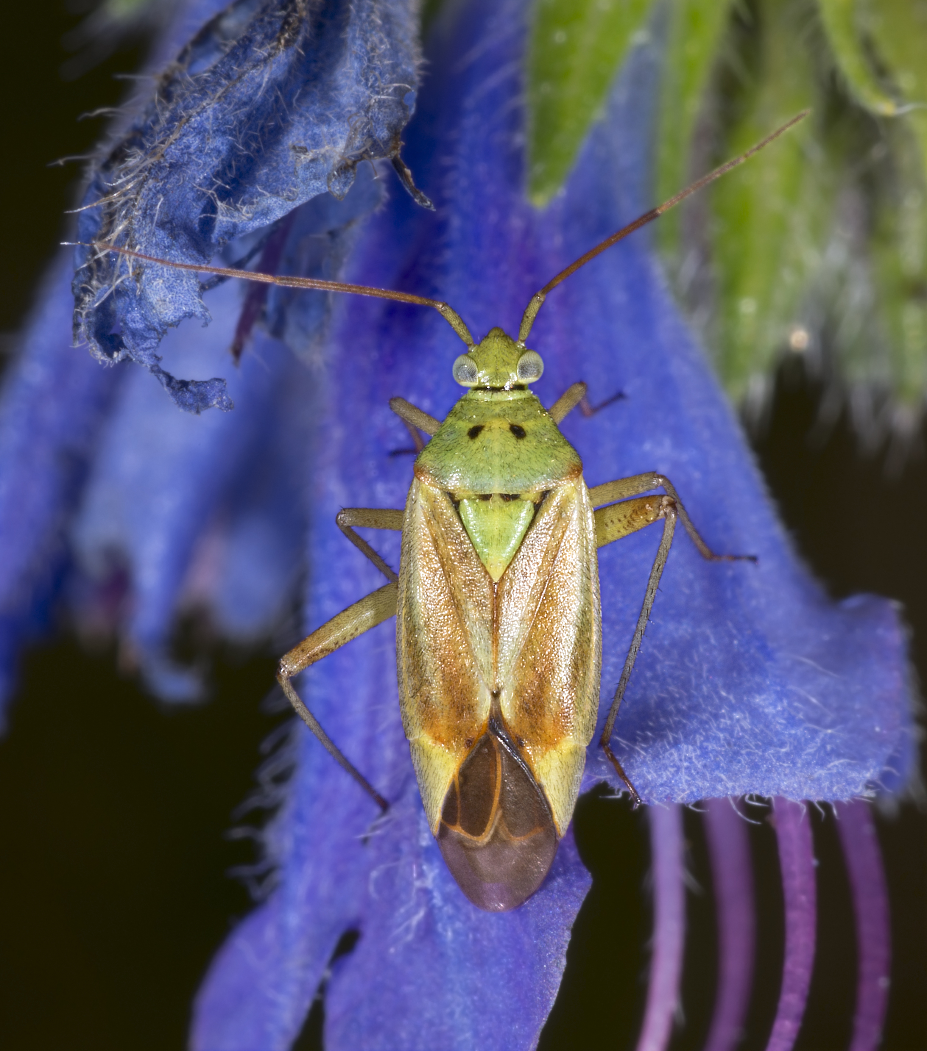 Closterotomus norvegicus, on Viper's Bugloss (Echium vulgare).